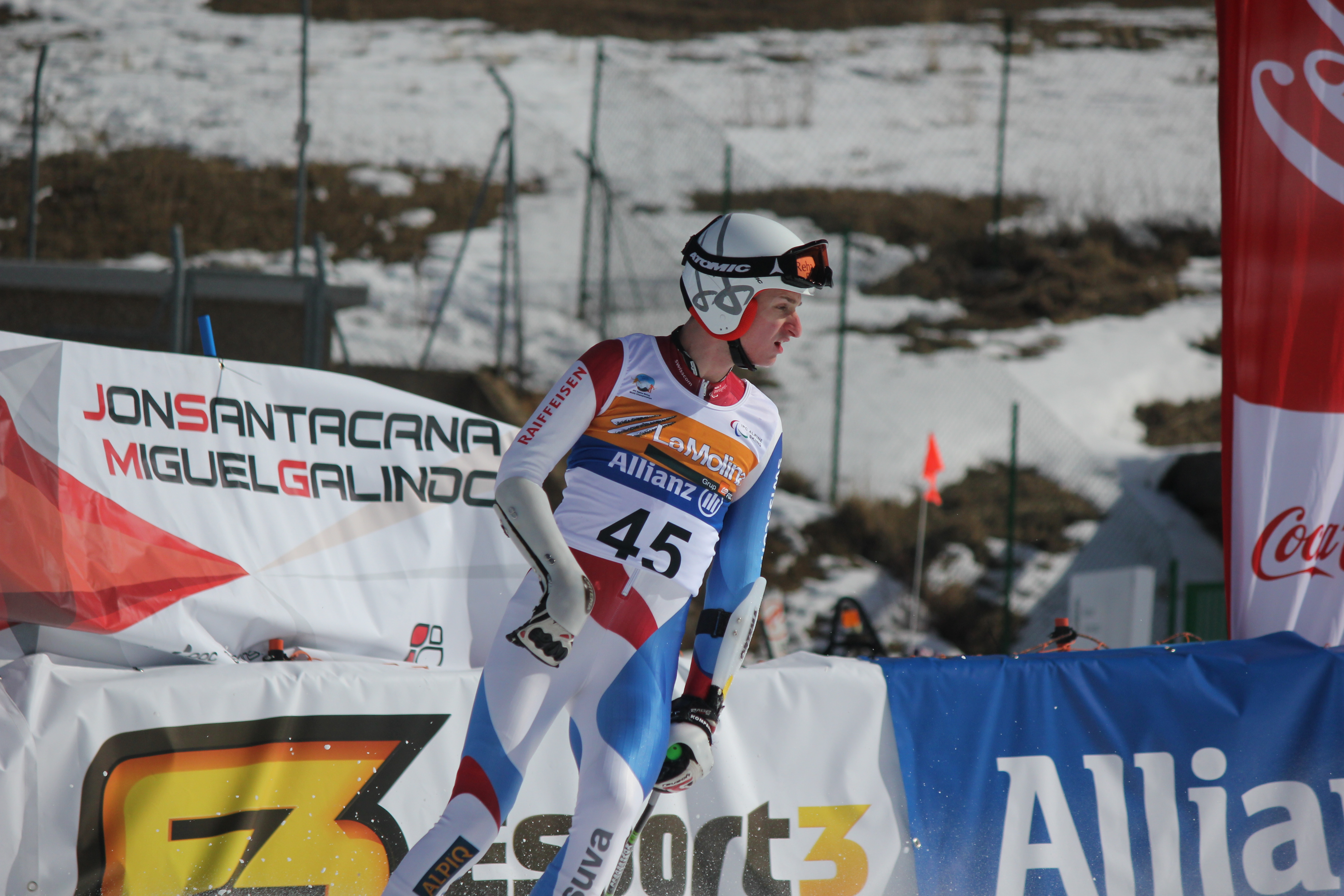 Thomas Pfyl of Switzerland. 2013 IPC Alpine World Championships at La Molina in Spain. Day 2 of competition. Super-G final.